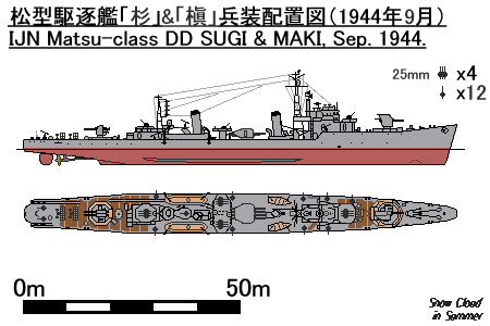 Figure of IJN DD "Sugi" (D-class) on Sep. 5th, 1944.